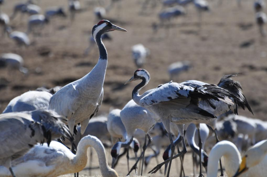 Two common cranes at the southern outpost of lake hornborga.